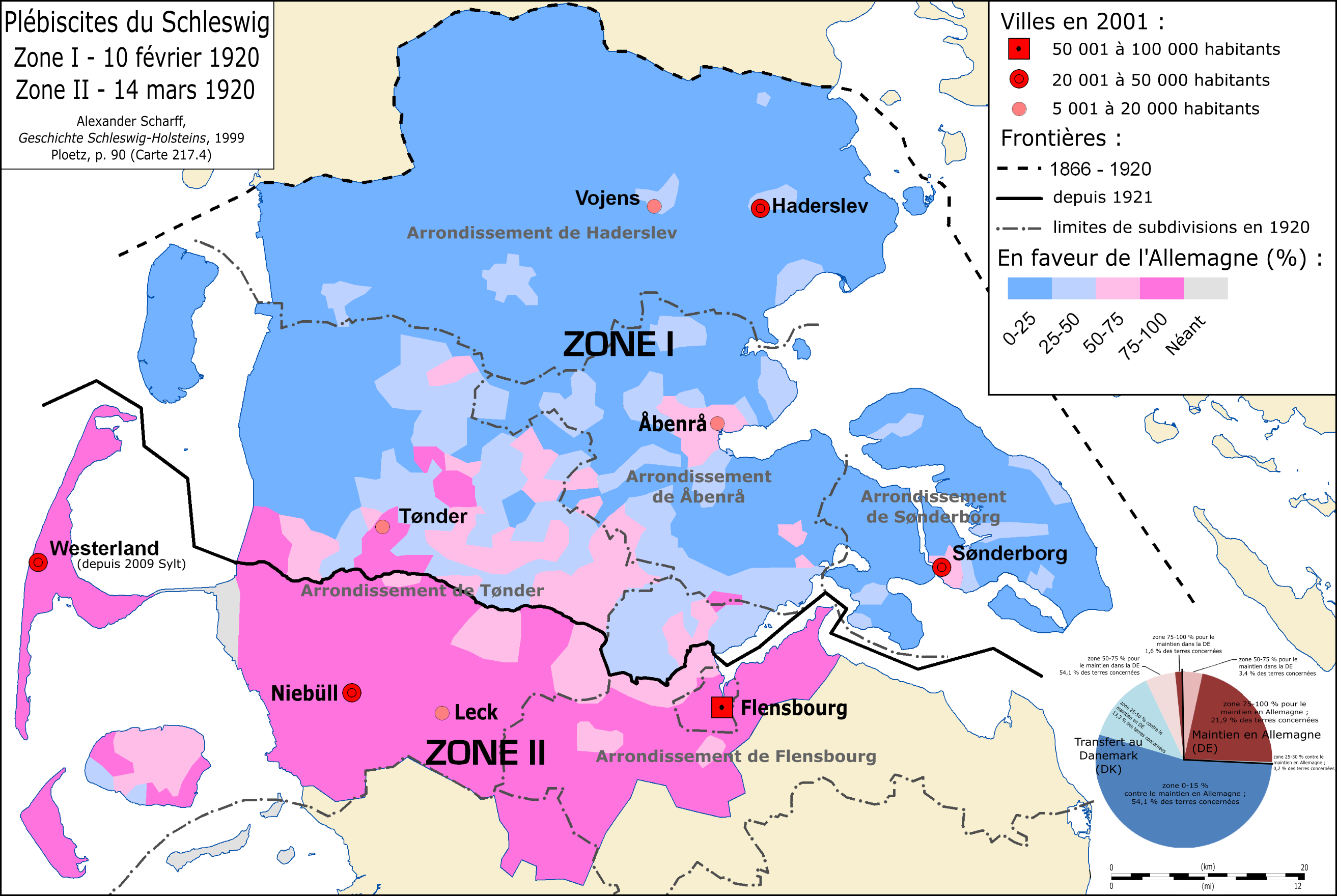 Results of the Schleswig Plebiscites 1920. This map shows results per polling station, and which is the traditional way of showing the election result in German publications. In Danish newspapers and government publications, votes were counted for per parish. When counted per parish, most parishes in the mixed region of zone I shows small Danish majorities (in the 51-65% range).